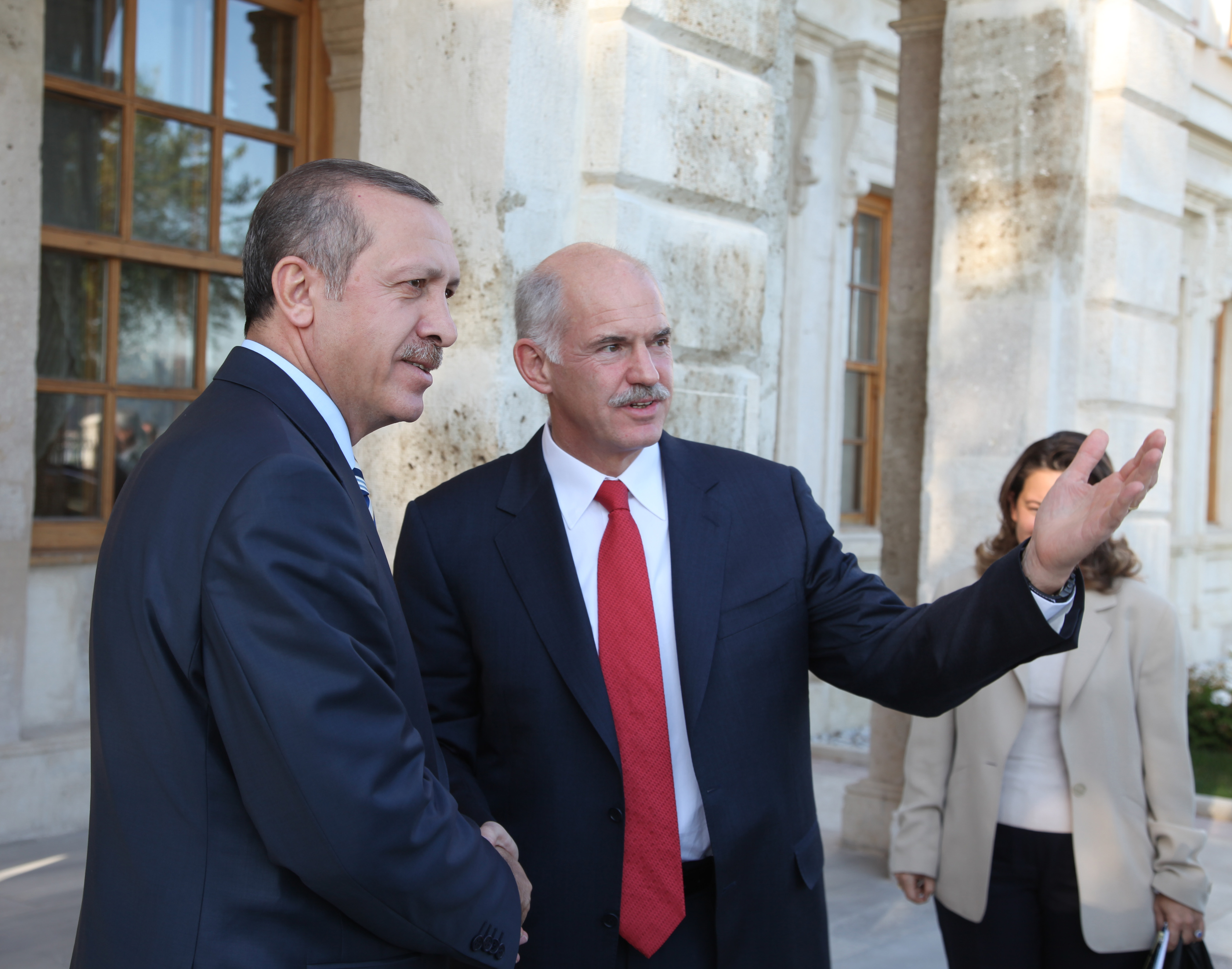 Turkish Prime Minister Recep Tayyip Erdoğan and Greek Prime Minister George Papandreou, Turkey November 2009.